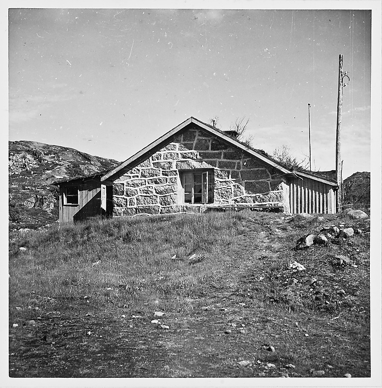 Image from "Photo Album from Terboven's journey to Nothern Norway and Finland 10–27 July 1942" (Mit dem Reichskommissar nach Nordnorwegen und Finnland 10. bis 27. Juli 1942), 375 images uploaded to www. by Riksarkivet (National Archives of Norway) 2012. See scanned album here